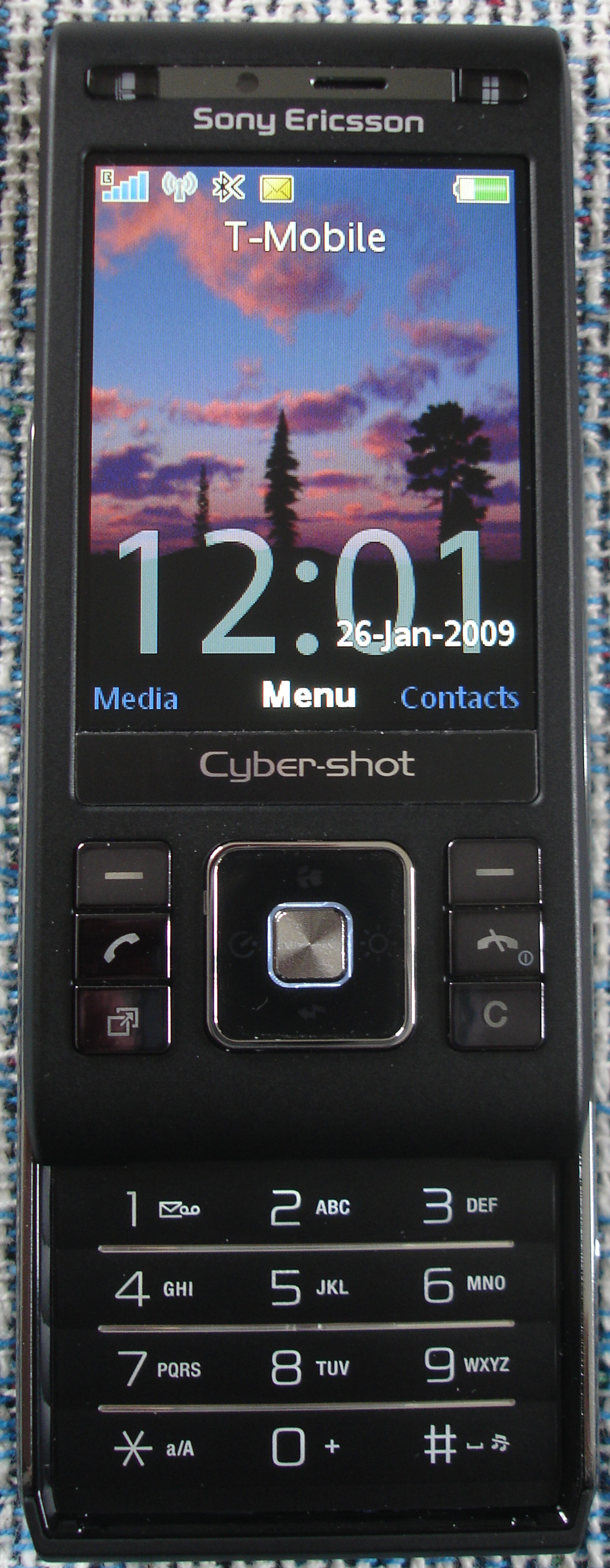 Sony Ericsson c905 Cyber-shot slider mobile phone, open, on the T-Mobile network.